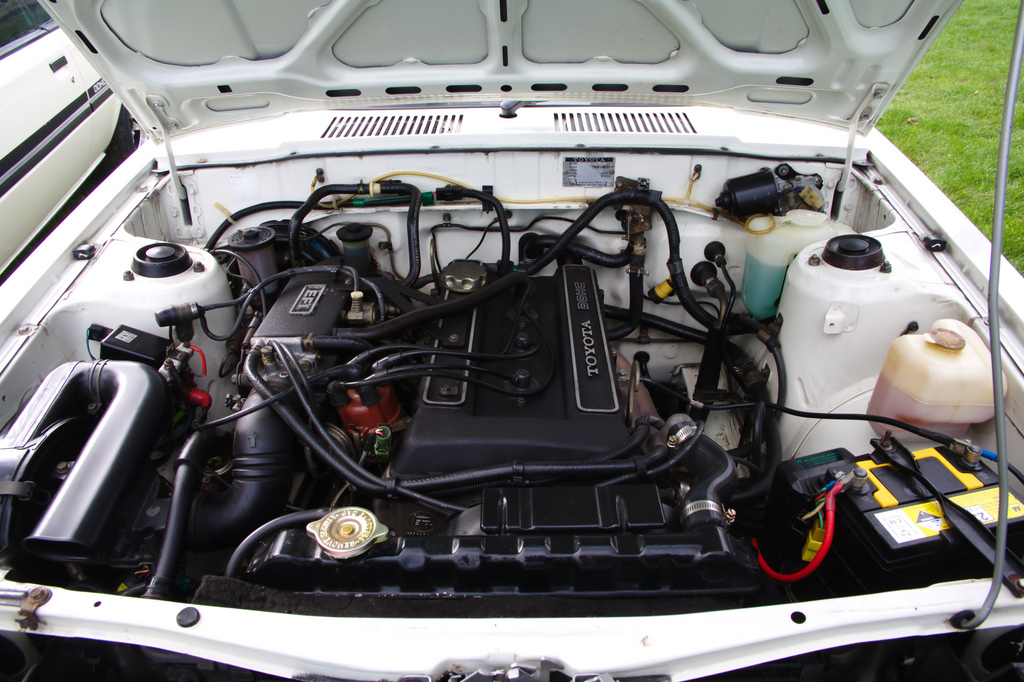 Toyota Sprinter (TE71 2T-GEU)